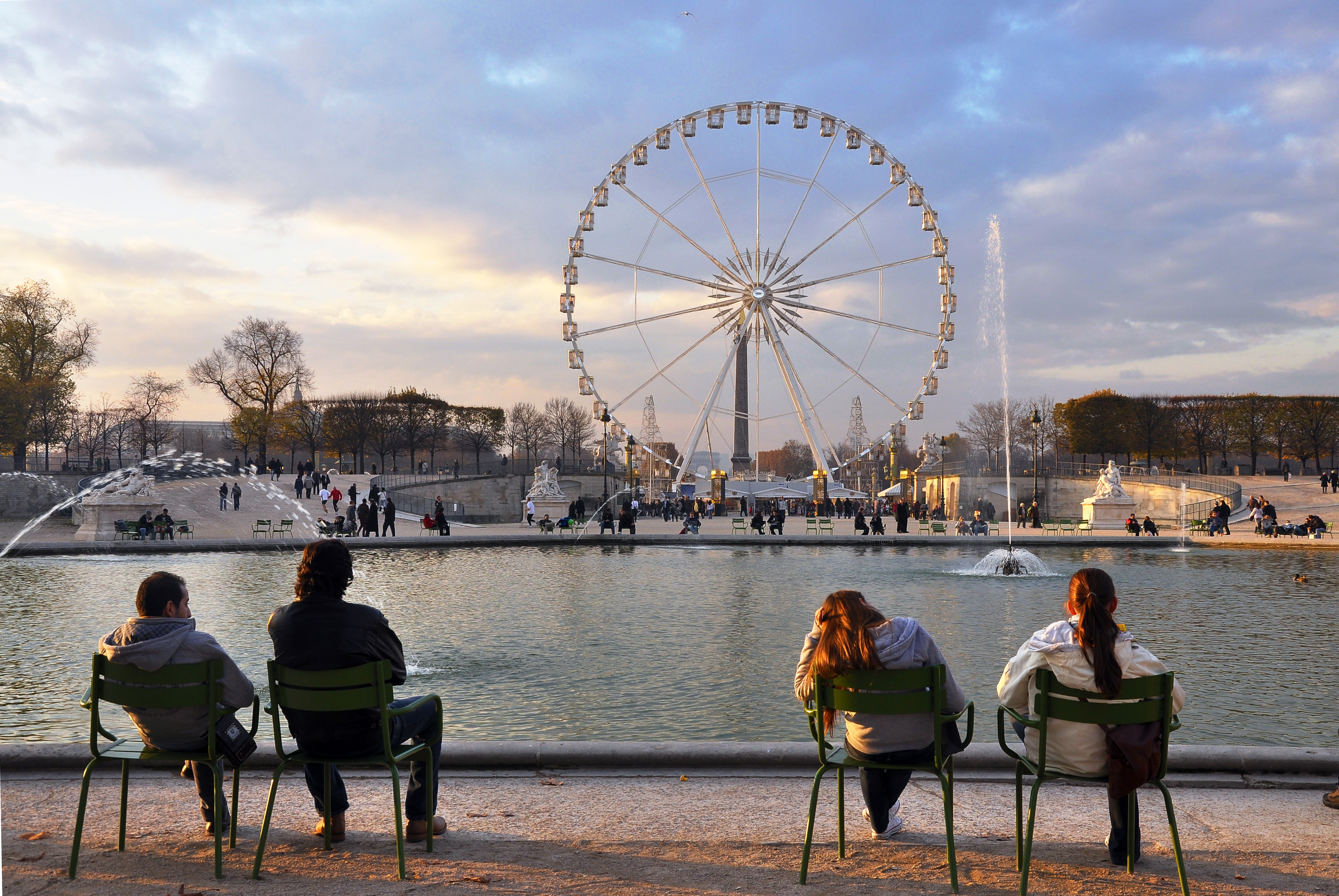 Octagonal basin in the Jardin des Tuileries at the 1st arrondissement of Paris, France.